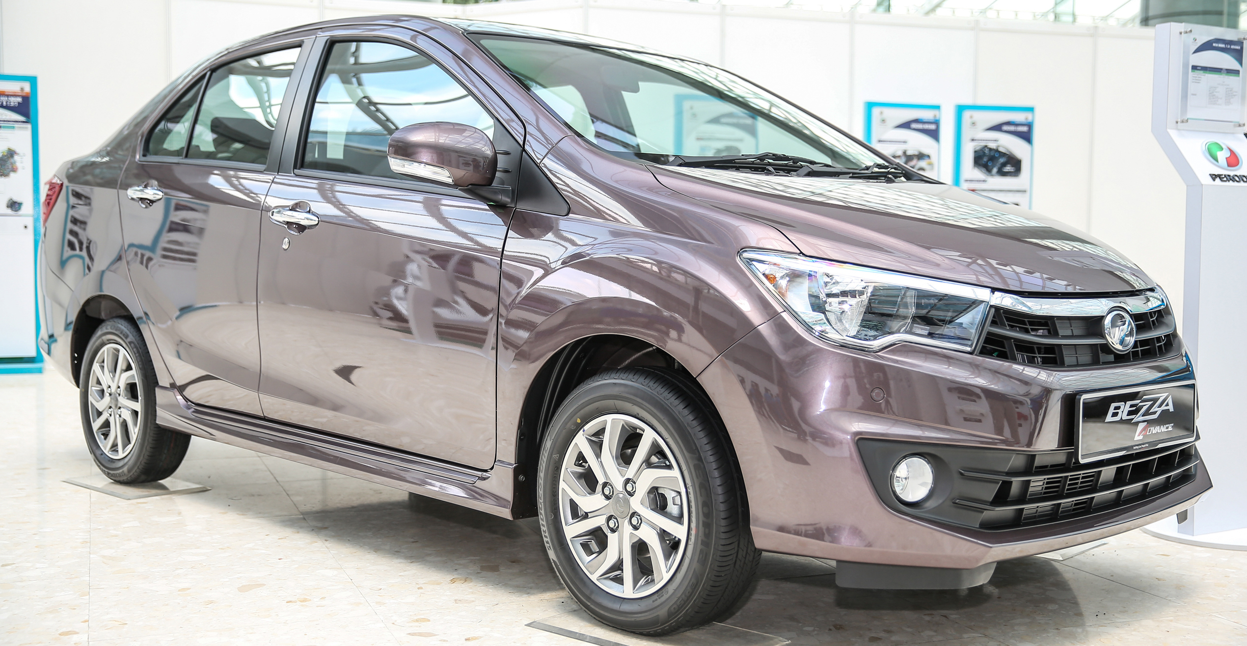 A photo of the 1.3 Advance variant of the Perodua Bezza, an A-segment sedan sold in Malaysia.